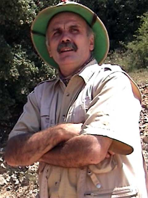 The Spanish prehistorian Eudald Carbonell